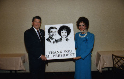 President Ronald Reagan and Jeb Bush (1-4) Trip to Florida, remarks at fundraiser for Paula Hawkins President Reagan, Paula Hawkins, Gene Hawkins, (Not in all Photos) (5-21) Trip to Florida, remarks at fundraiser for Paula Hawkins President Reagan, Paula Hawkins, Jeb Bush, Alec Courtelis, Gene Hawkins, Jeanie Austin, (Not in all Photos) (22-28) Trip to Florida, remarks at fundraiser for Paula Hawkins